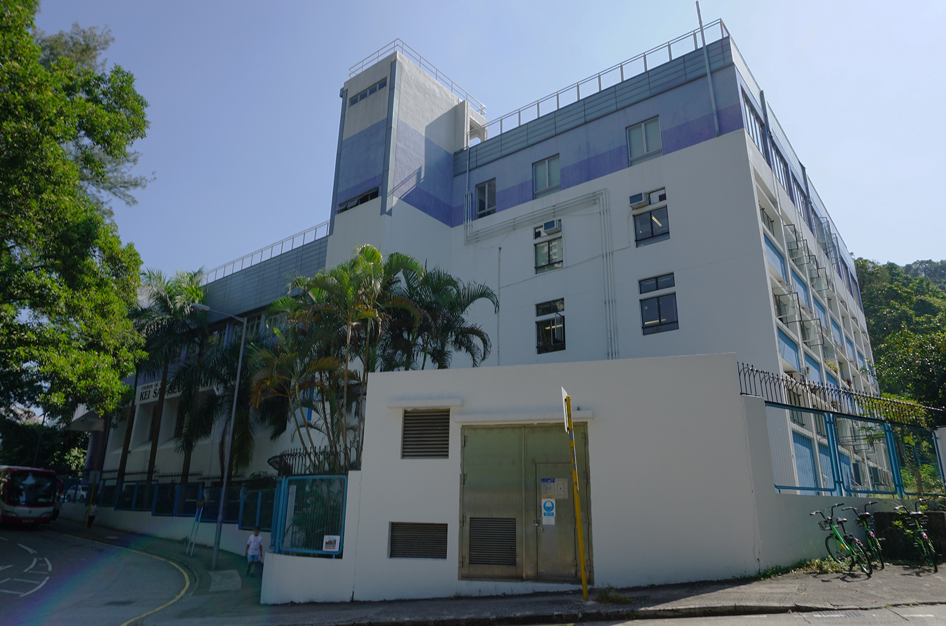 CCC Kei San Secondary School in Fanling, Hong Kong.